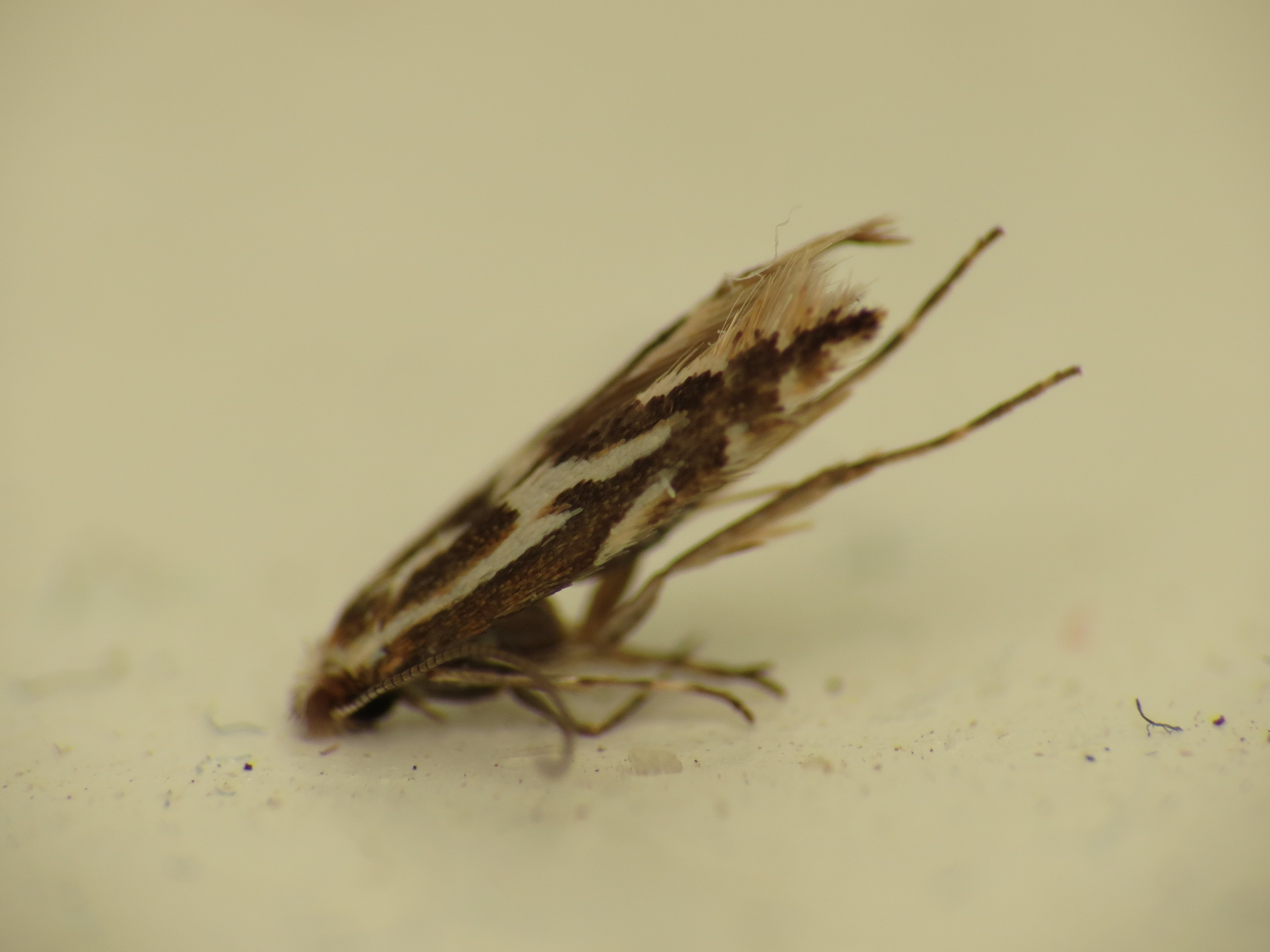 Phyllonorycter blancardella Fabricius, 1781, dead in house, Hellerup, Denmark, 1/2 June 2013 See here and here for examples with confluent basal streak and first dorsal streak.